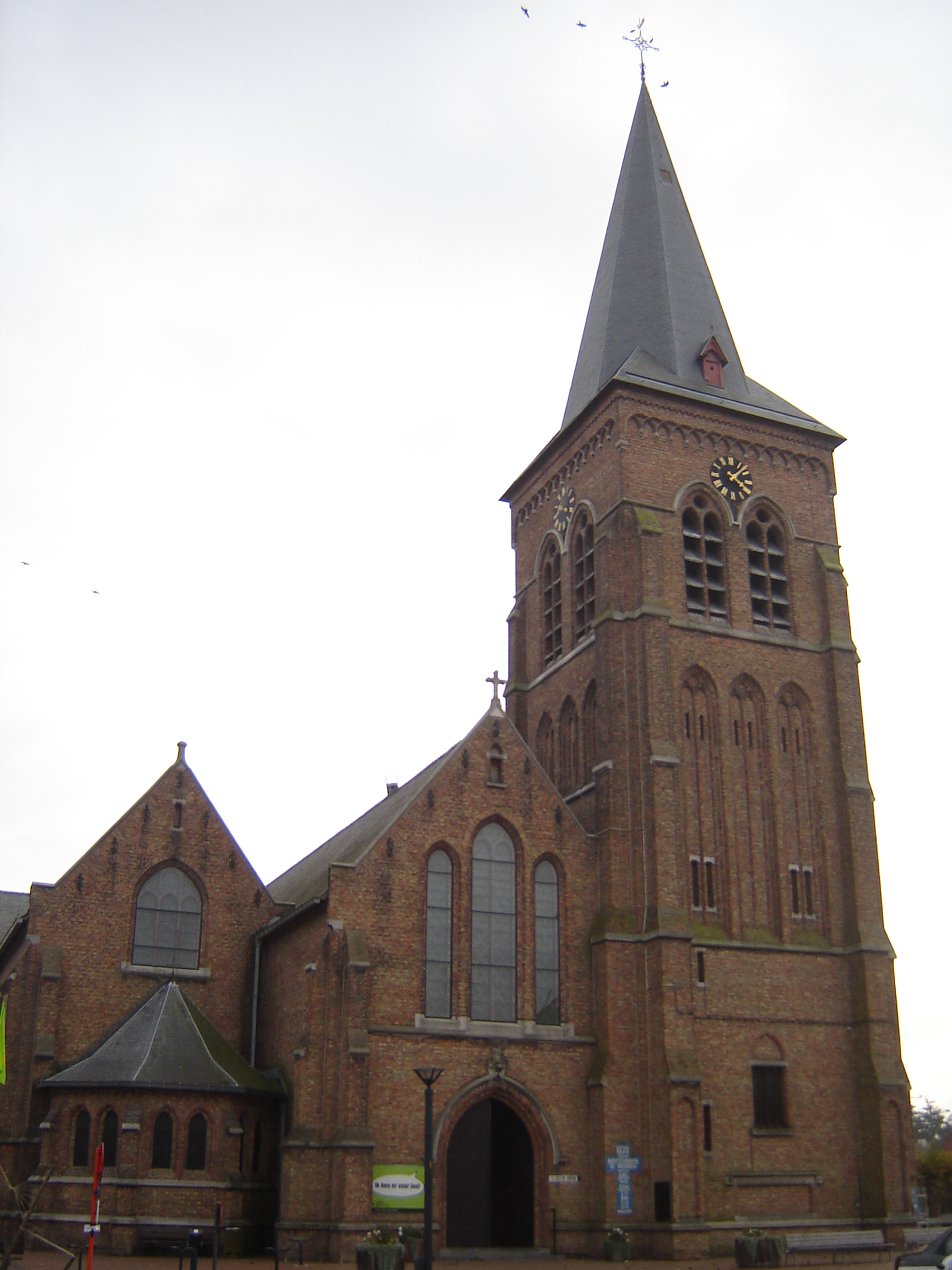 Church of Saint Bartholomew in Kortemark. Kortemark, West Flanders, Belgium